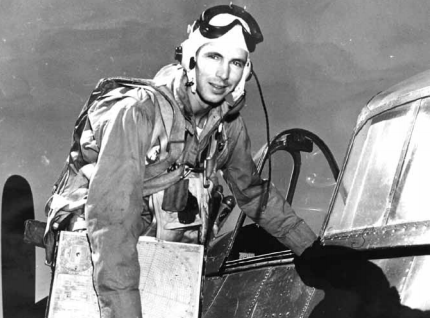 Fleming climbing into his Hellcat before a mission circa 1945